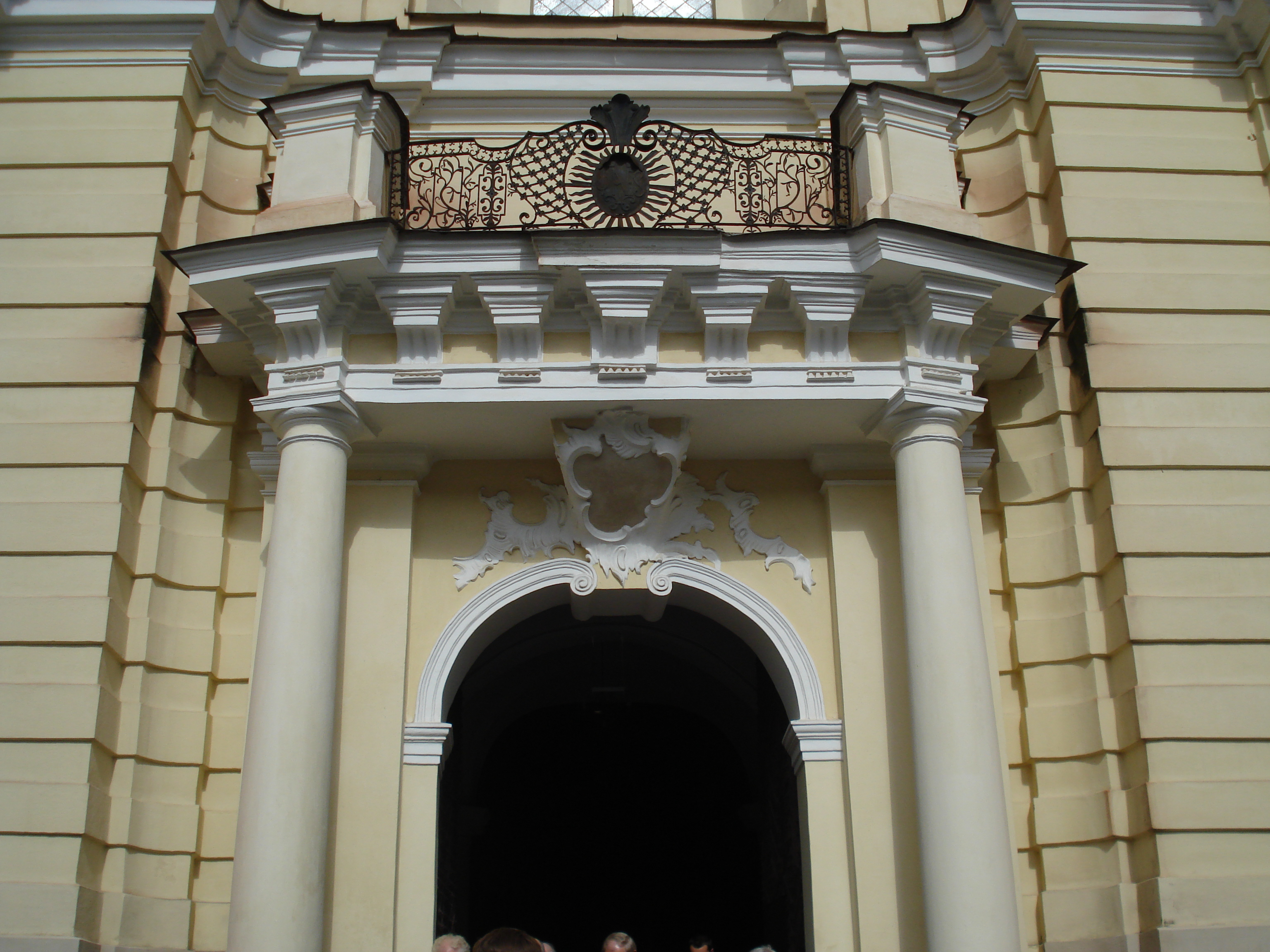 Door of the Church of St. John (Vilnius)